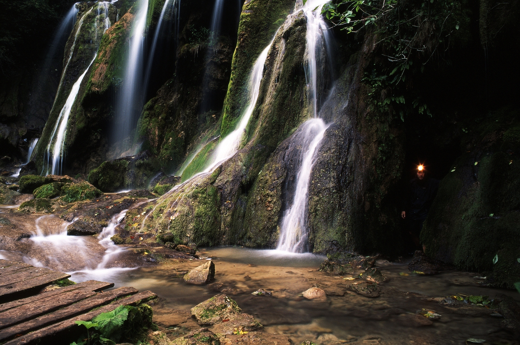 Waterfall in Cheile Nerei–Beusnita (Nera Gorges) National Park, Romania